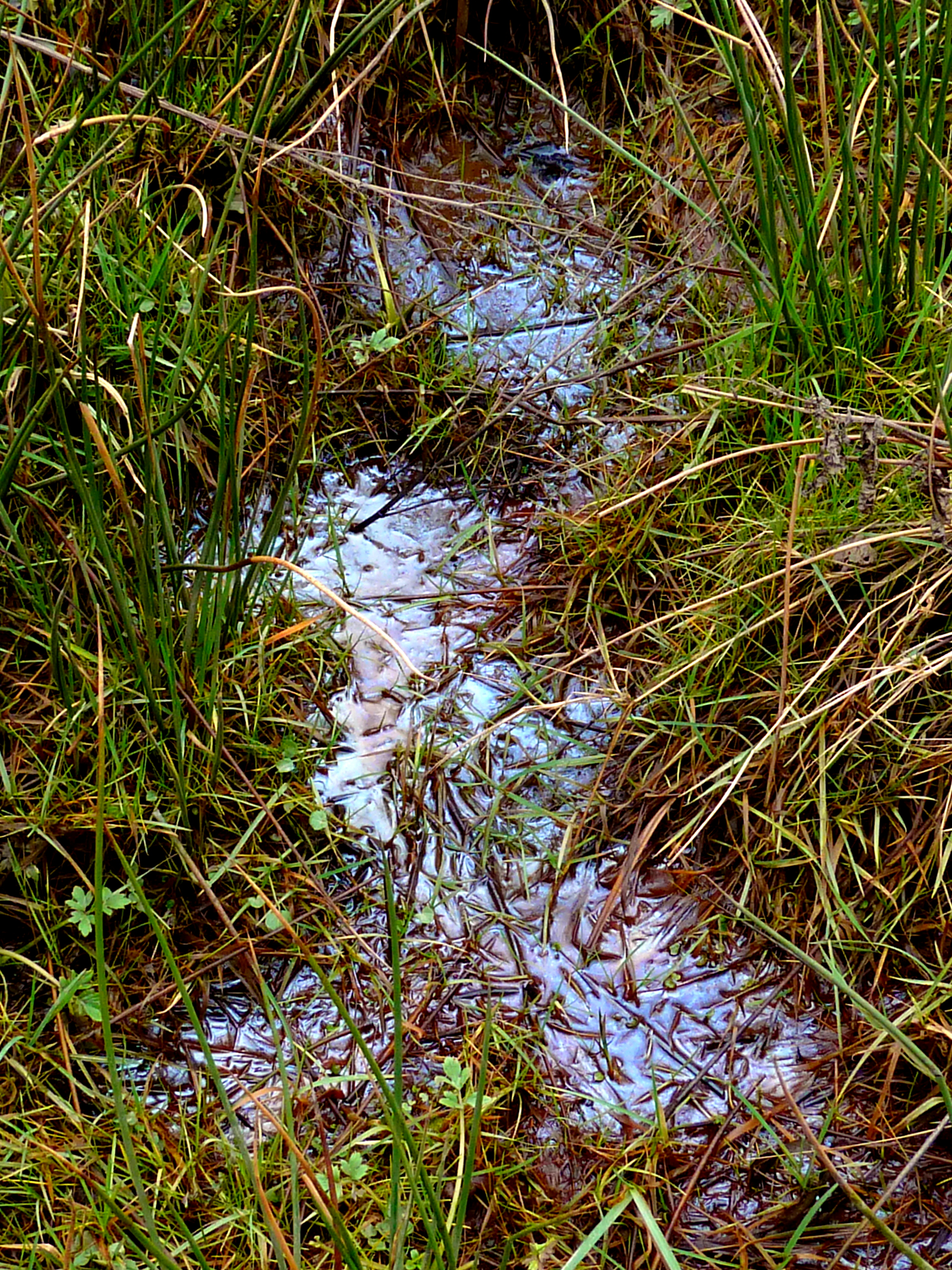 Bishop Monkton Ings, near Bishop Monkton village, North Yorkshire, England. This is a Site of Special Scientific Interest, containing a small area of deciduous woodland carr, most of the site's area being bog and fen. The whole site is waterlogged and there is no public access. It can be seen from a public footpath which remains muddy for most of the year. Showing naturally oily bog water in the marsh area.